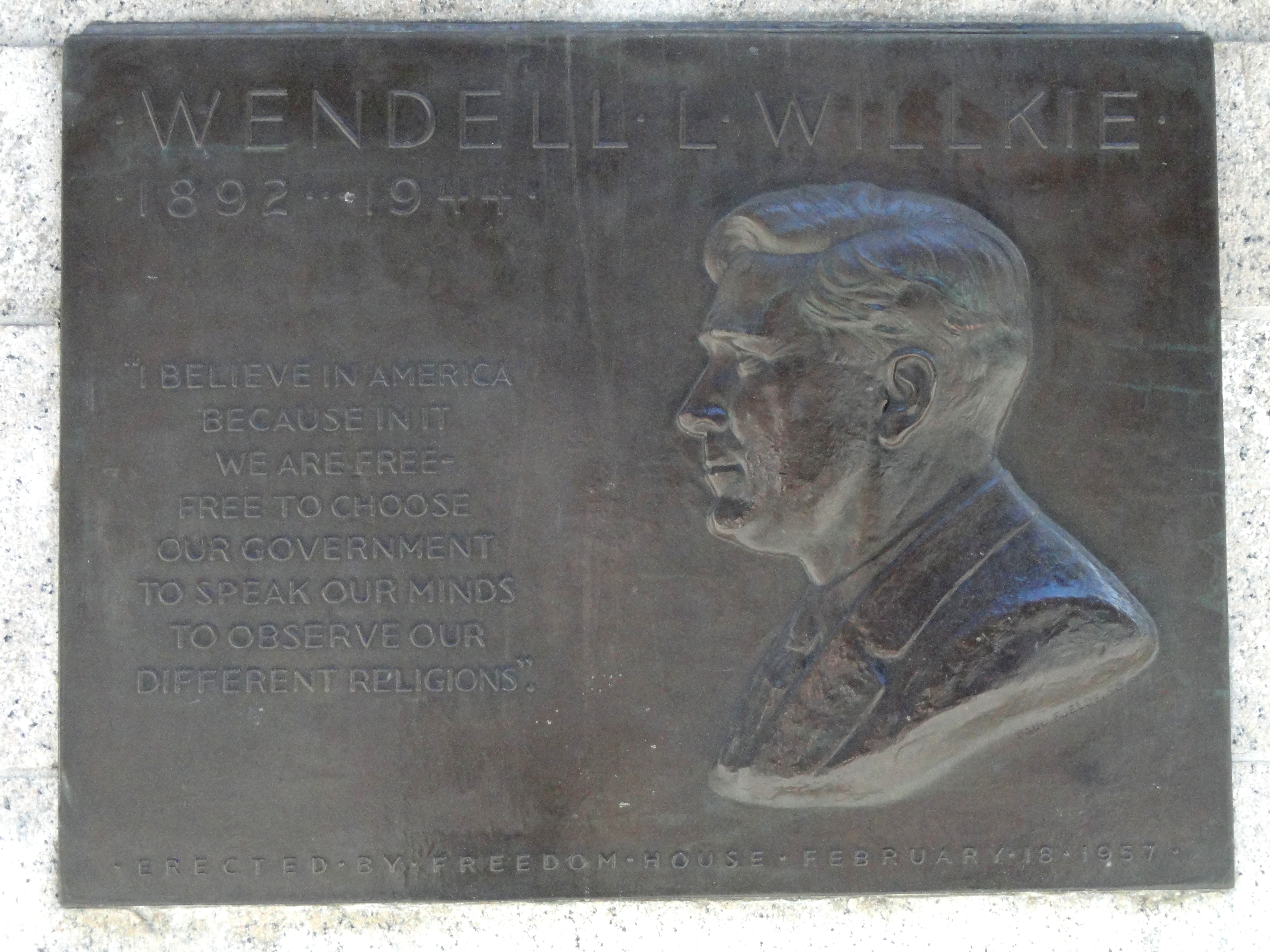 Wendell Wilkie plaque by unknown artist, New York Public Library, New York City, New York, USA. Created 1957. Now in the public domain because published in the United States between 1923 and 1963, with its copyright not renewed.